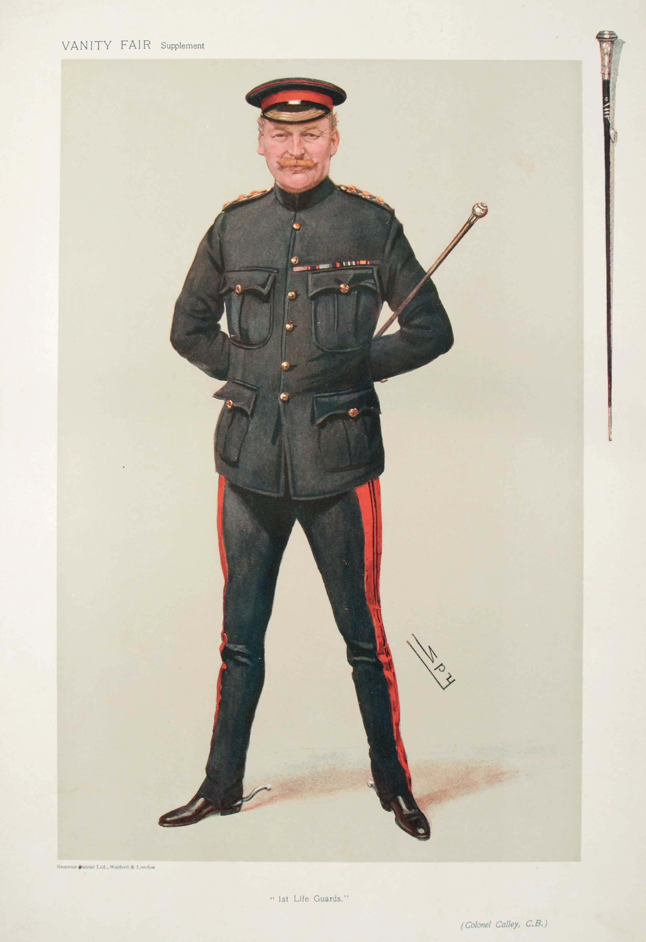 Caricature of Colonel Thomas Charles Pleydell Calley (1856 – 1932). Caption read "1st Life Guards".